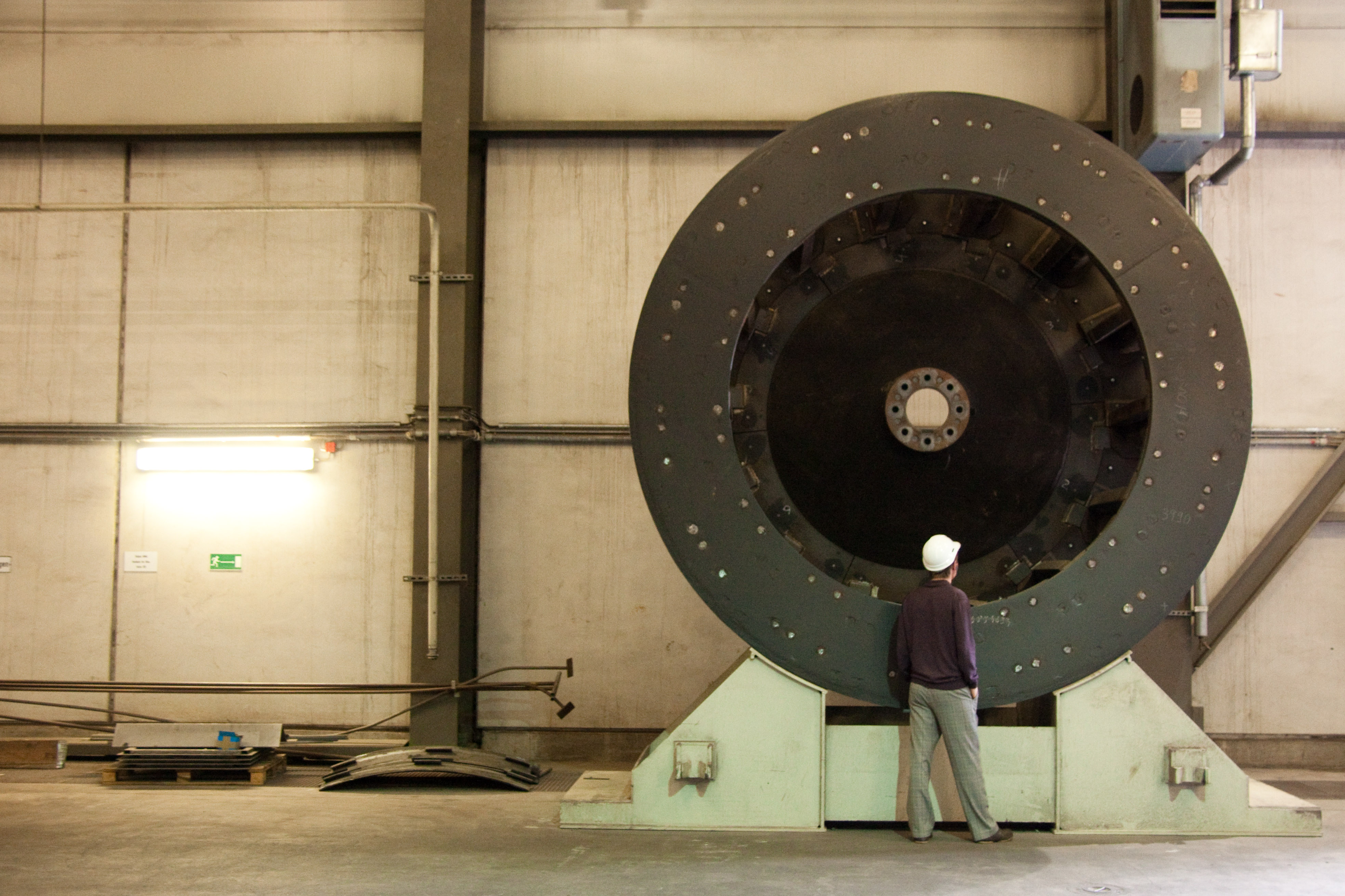 Coal mill of lignite power plant Schwarze Pumpe, Germany.